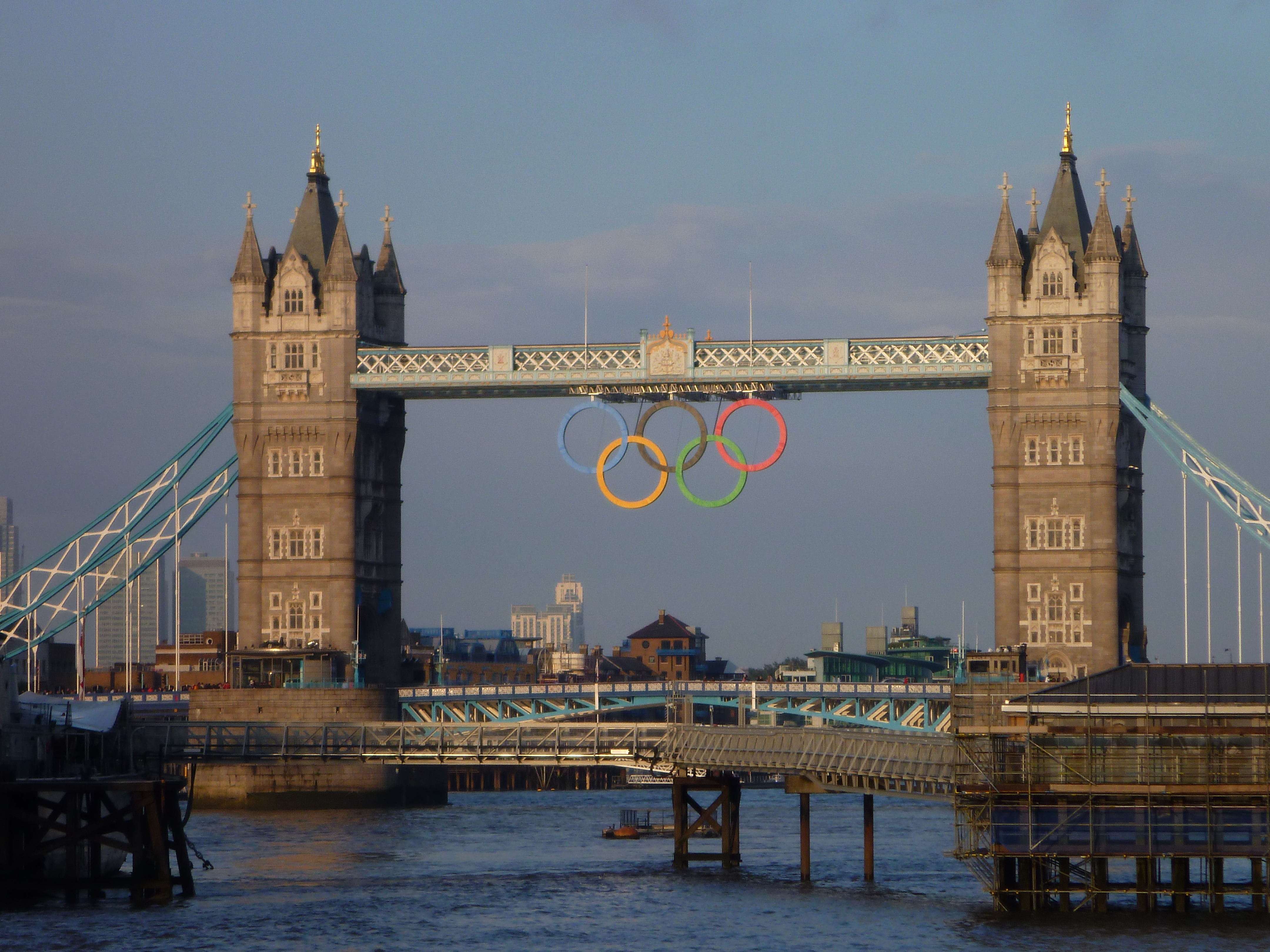 The olympic rings on Tower Bridge for the 2012 Summer Olympic Games